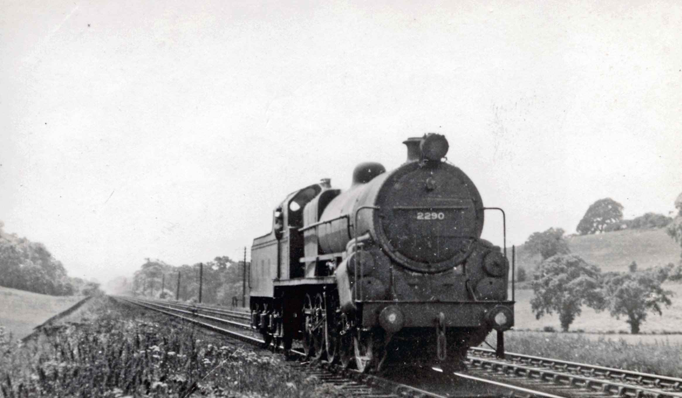 'Big Bertha', the 0-10-0 banker, descending the Lickey Bank, 1947View SW, down the 1-in-37 Lickey Bank to Bromsgrove, on the ex-Midland Birmingham - Bristol main line. The sole and unique 0-10-0 No. 2290, was built at Derby in 1919, became No. 22290 very briefly before Nationalisation, then No. 58100 on the LMR and worked here until withdrawn in 5/56.